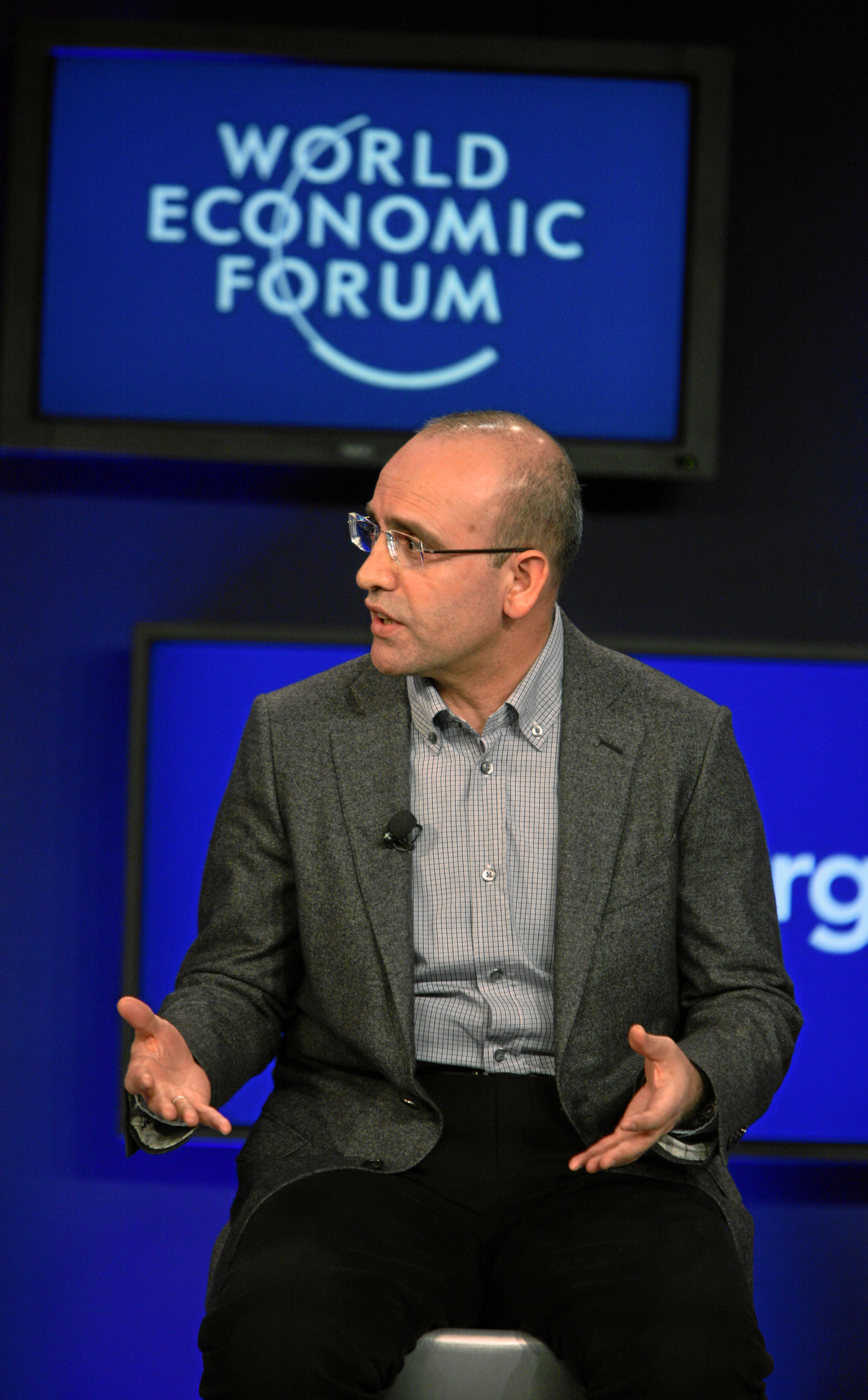 Mehmet Simsek, Minister of Finance of Turkey is captured during the session 'WHAT IF: competitive devaluation becomes the global norm?' at the Annual Meeting 2011 of the World Economic Forum in Davos, Switzerland.